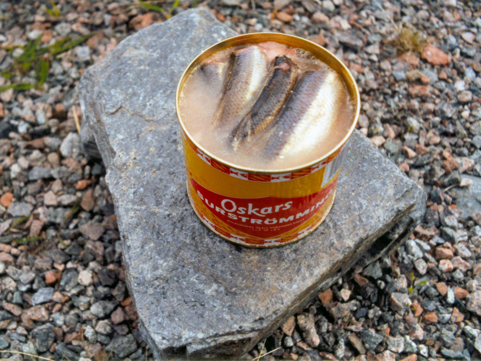 Surströmming – a fish speciality from north Sweden